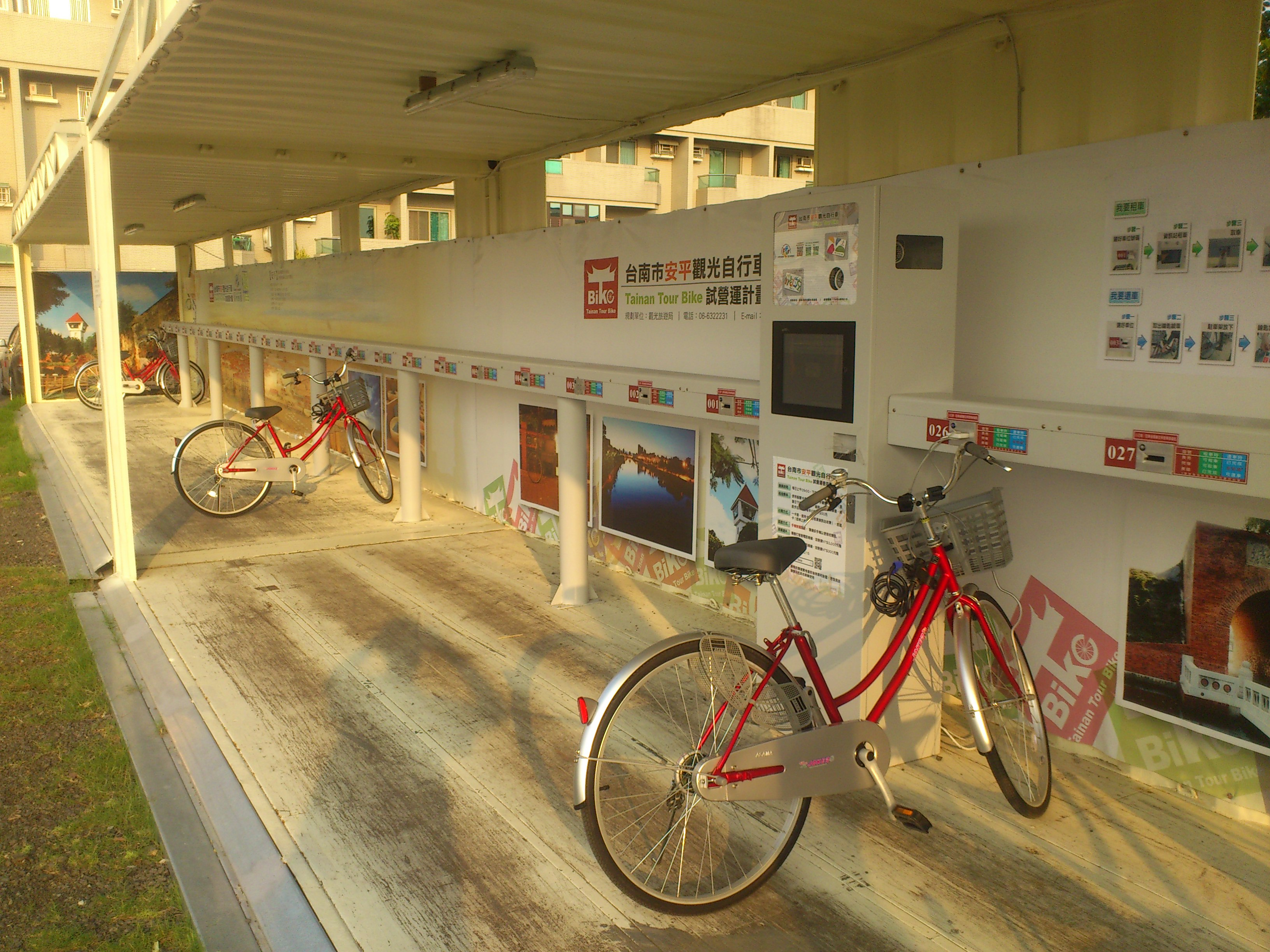 Tainan Tour Bike Anping Tree House Station